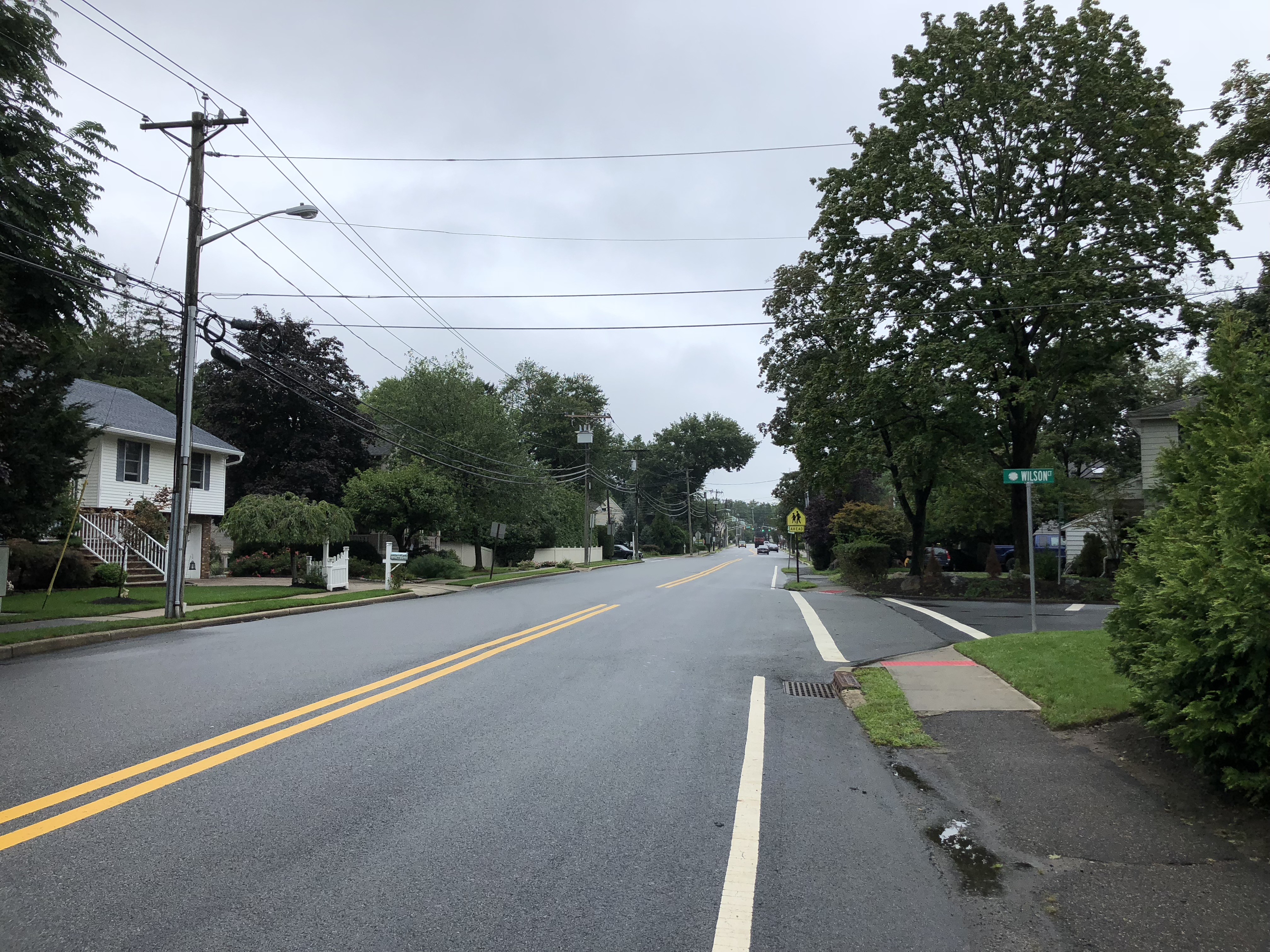 View north along Bergen County Route 53 (Rivervale Road) at Wilson Court in River Vale Township, Bergen County, New Jersey